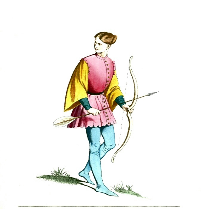 Illustration by Paul Mercuri from "Costumes Historiques" (Paris, ca.1850′s or 60’s). Scanned and archived at where it was marked as Public Domain.